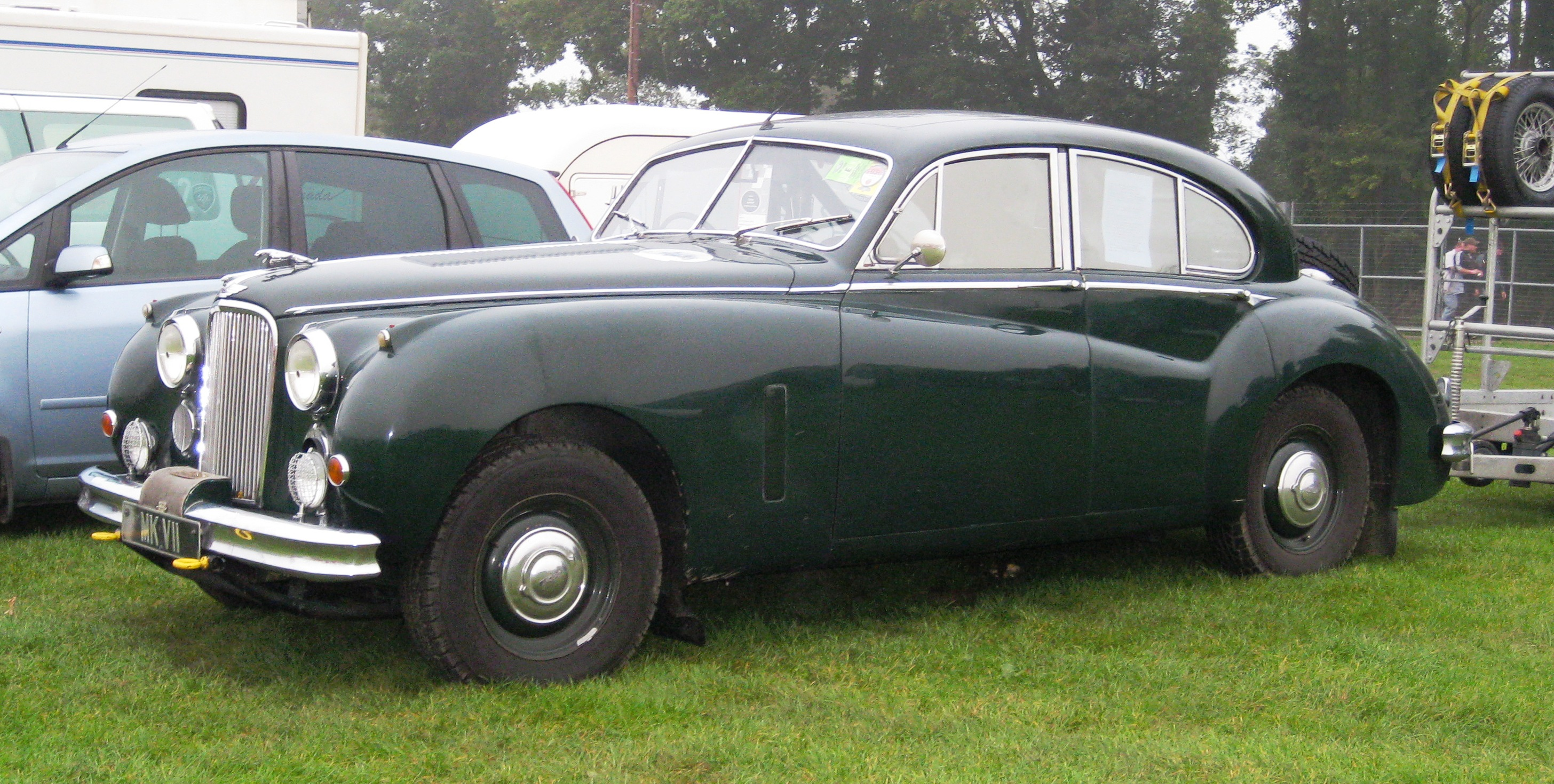 Jaguar Mark VII as a workhorse, photographed at Brands Hatch October 2010